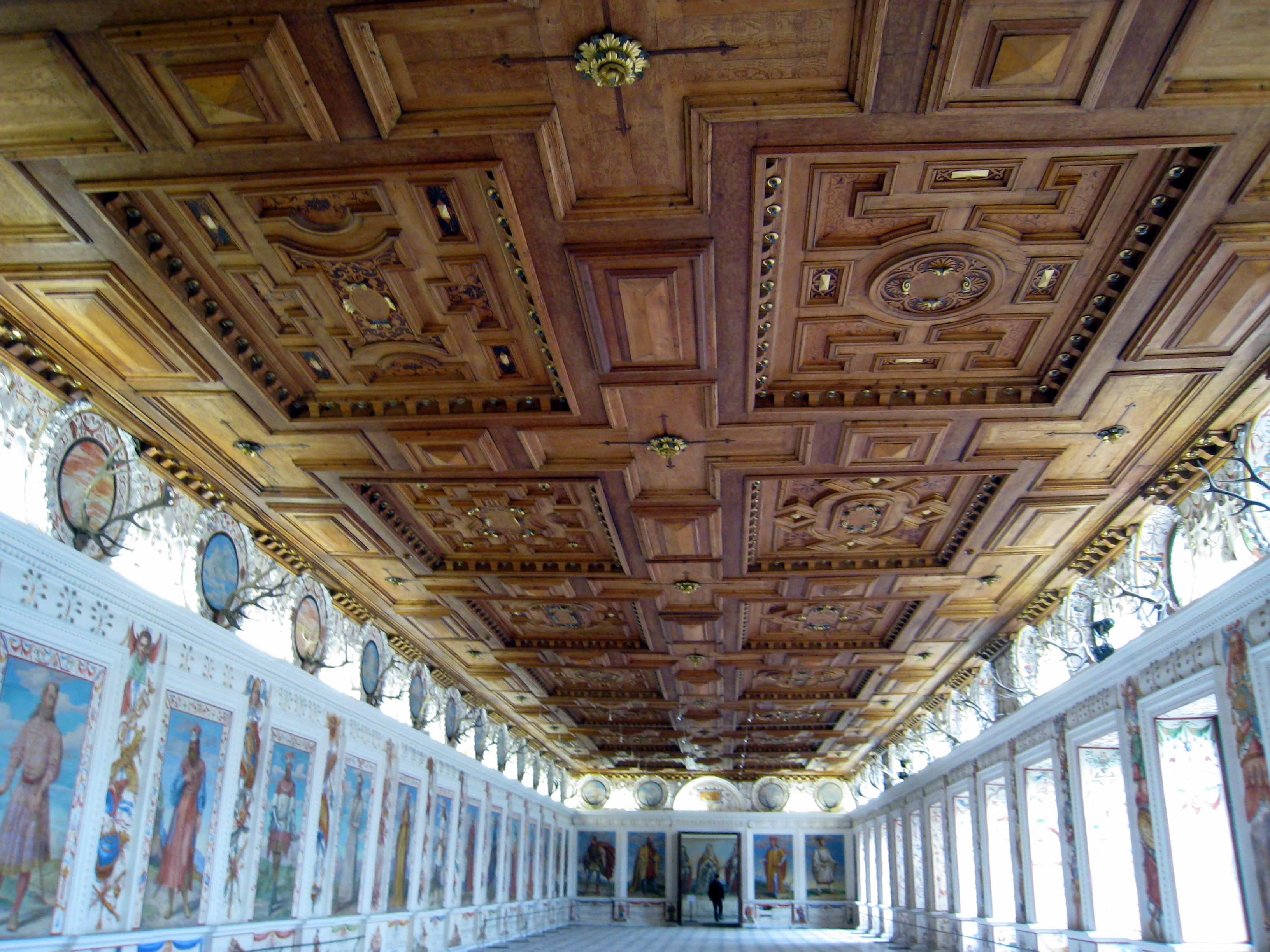 Schloss Ambras, Innsbruck, Austria - Spanish Hall.